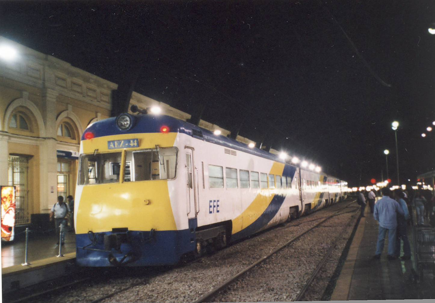 Automotor AEZ, Empresa de los Ferrocarriles del Estado, Chile